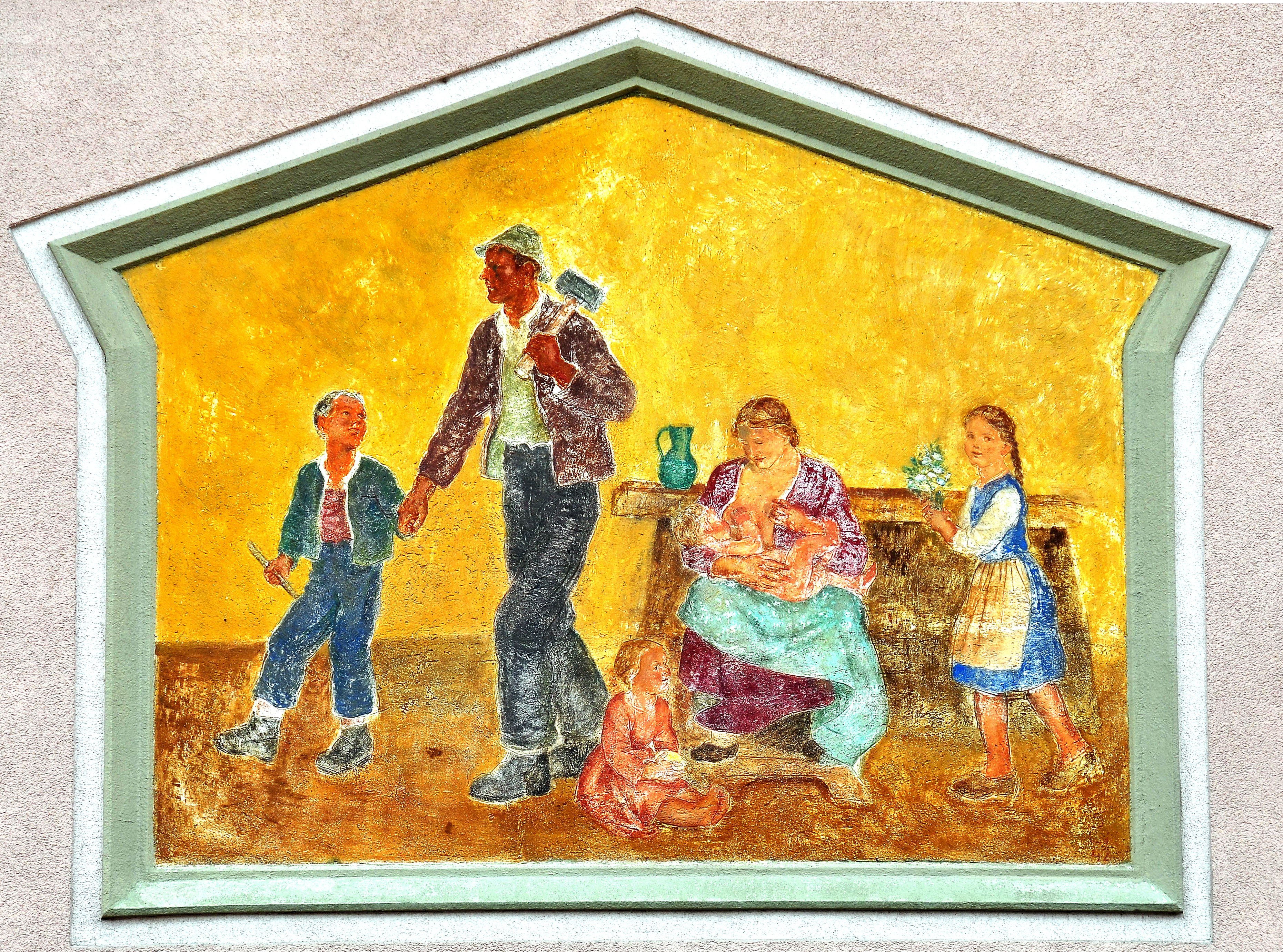 Public view